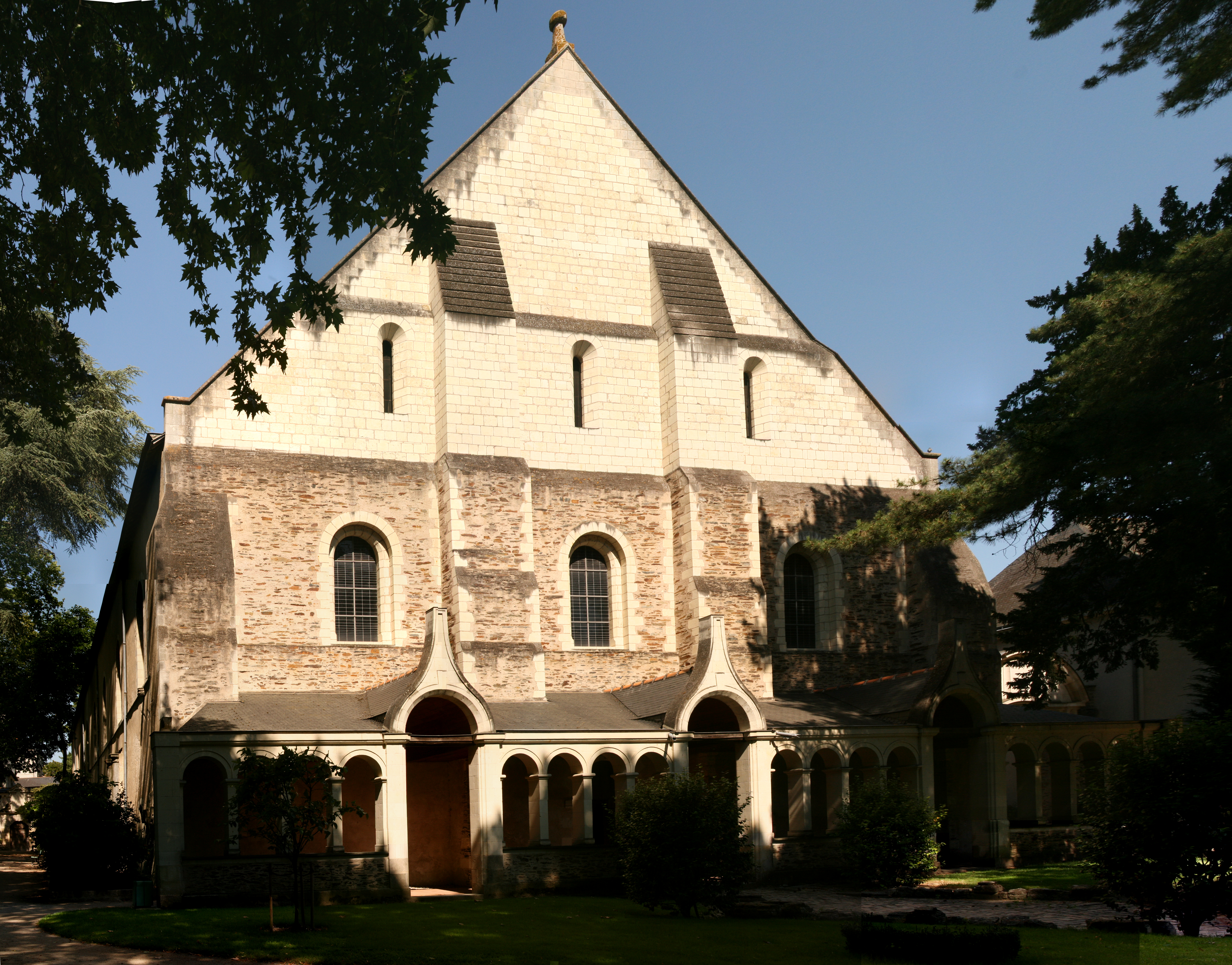 Facade of former Hôpital Saint-Jean in Angers, France.